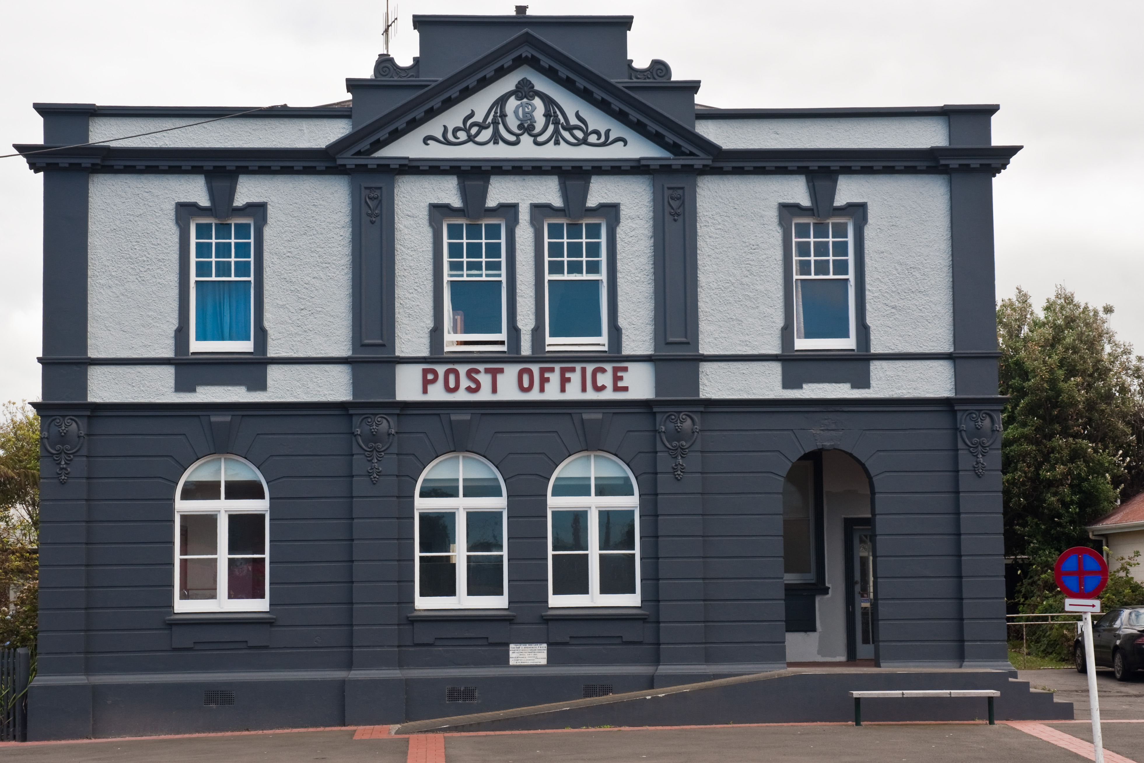 Manaia Post Office, Taranaki, New Zealand, 7 March 2010